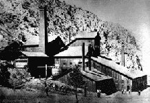 Panamint City was once called the toughest, rawest, most hard-boiled little hellhole that ever passed for a civilized town.